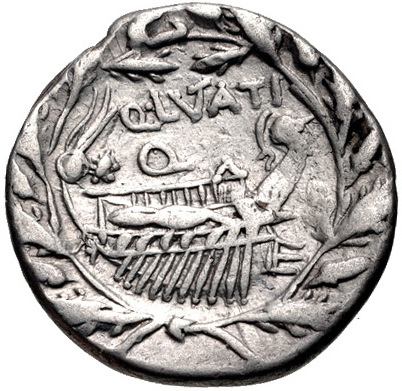 Q. Lutatius Cerco. 109-108 BC AR Denarius (18mm, 3.82 g, 12h). Rome mint. Helmeted head of Roma (or Mars) right; mark of value to left / Galley right with head of Roma on prow; all within oak wreath. Crawford 305/1; Sydenham 559; Lutatia 2. VF, lightly toned, faint hairlines on the obverse. From the Demetrios Armounta Collection. Ex Classical Numismatic Group Electronic Auction 144 (26 July 2006), lot 239; Classical Numismatic Group 47 (16 September 1998), lot 1173.